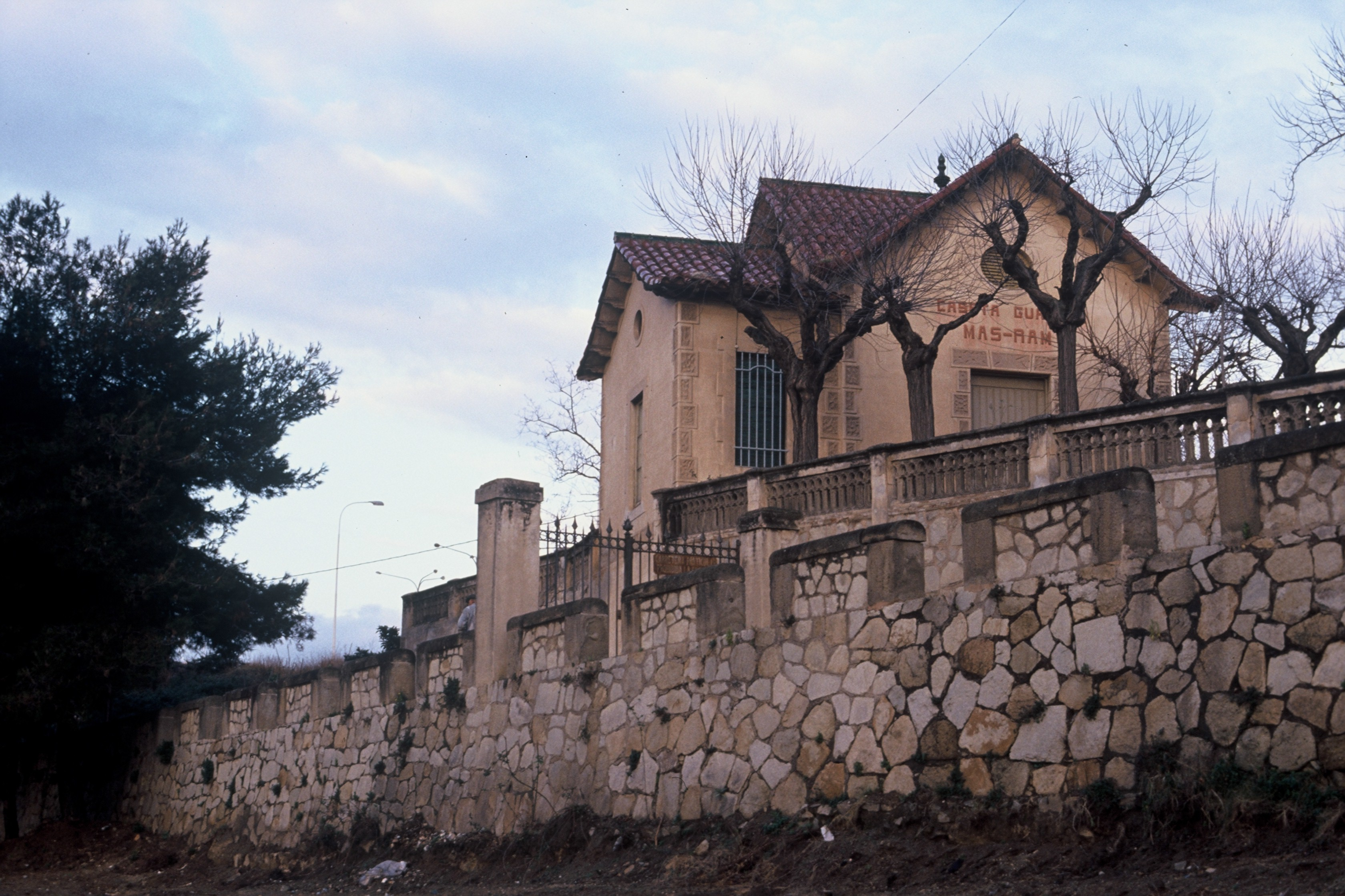 Mas Ram Keeper's house and old access lane to Mas Ram